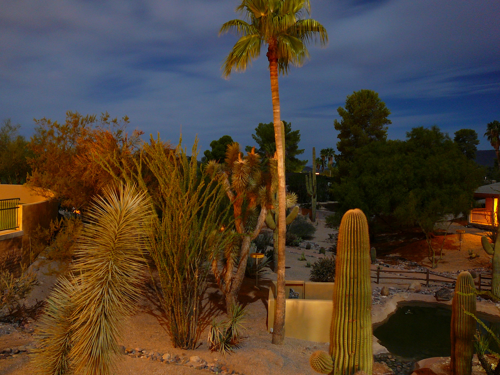 At Boulder's Resort in Carefree, AZ Uploaded on October 2, 2007 by tacvbo